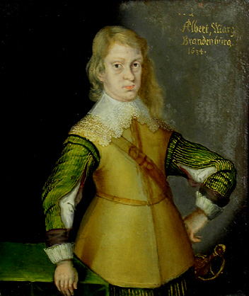 anonyme Miniatur